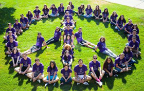 Hands of Peace delegation participants forming the peace sign